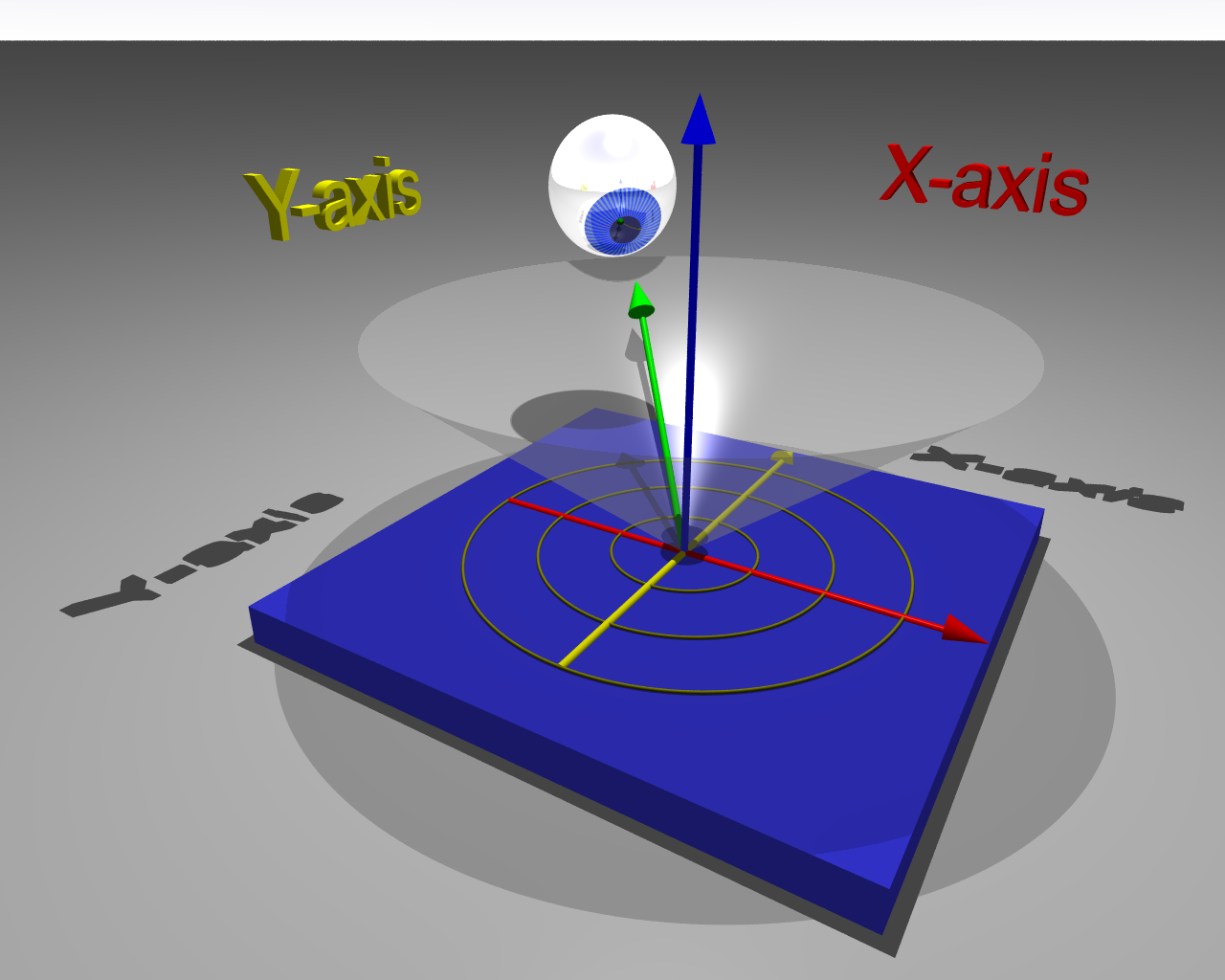 Example of a viewing cone centered about the surface-normal of a Liquid Crystal Display. [1]